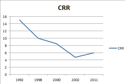 change in crr